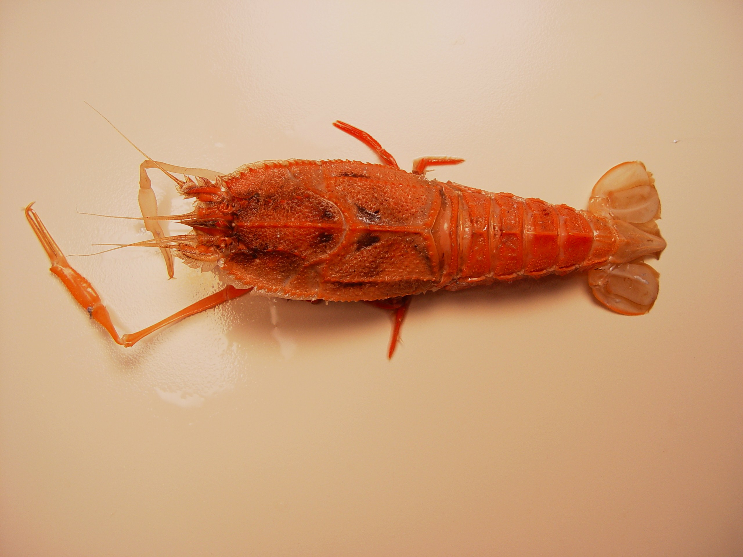 The blind lobster (Polycheles sculptus ; Synonym: Stereomastis sculpta )